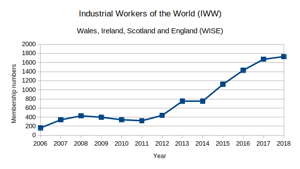 Membership numbers for the Industrial Workers of the World, in Wales, Ireland, Scotland and England, from the period of 2006-2018. Numbers sourced from their annual returns to the UK government. Membership over time: 163 (2006), 341 (2007), 428 (2008), 397 (2009), 342 (2010), 321 (2011), 437 (2012), 750 (2013), 750 (2014), 1121 (2015), 1430 (2016), 1671 (2017), 1730 (2018).